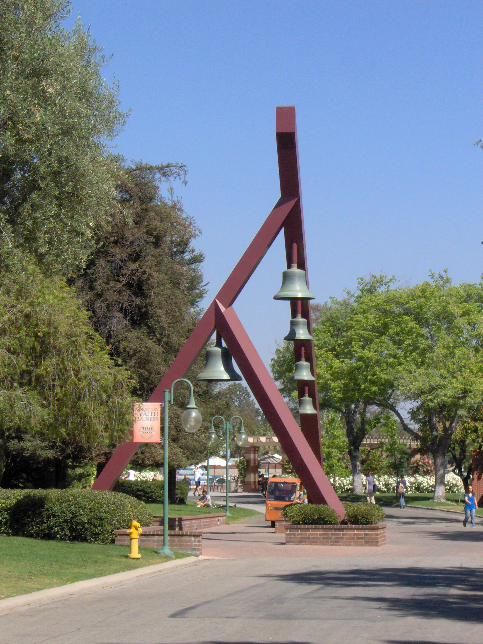 Original bell tower at Biola University now in La Mirada.